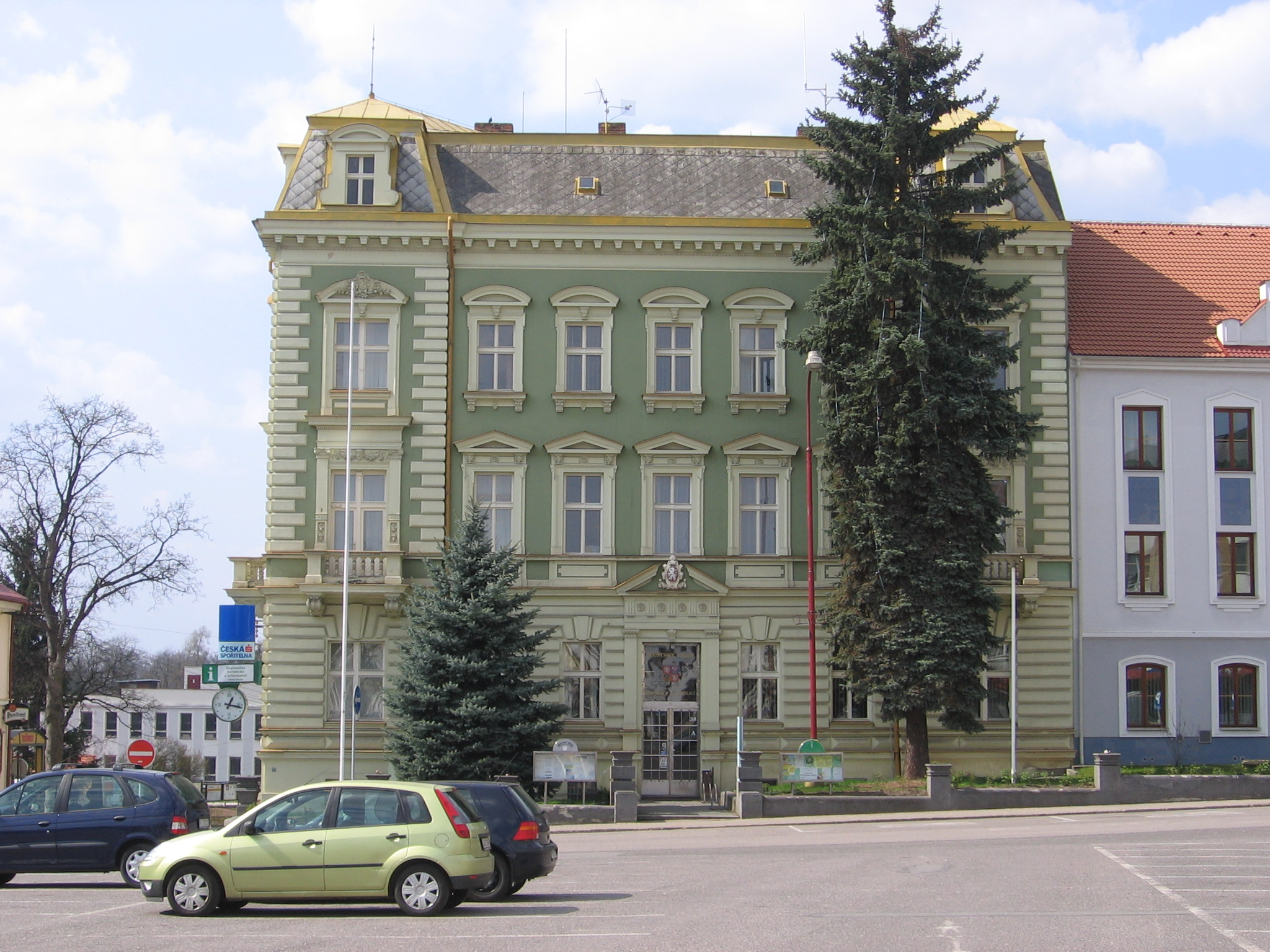 Town Hall in Kostelec nad Orlicí